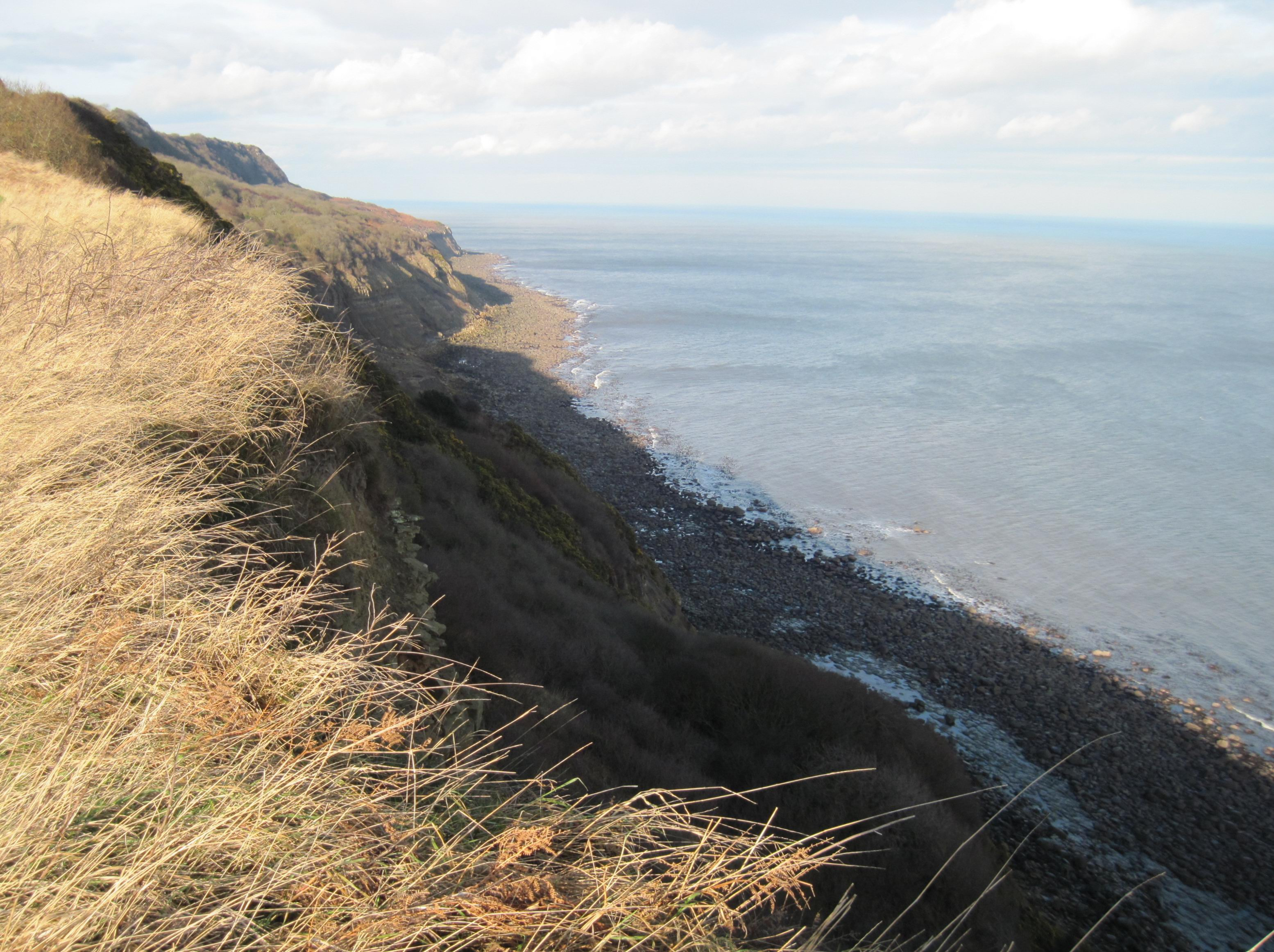 Up the coast from Petard Point As the Cleveland Way rises up to Petard Point this "over the edge" view can be seen up the coast.It shows what is known as the undercliff coming south from Ravenscar.